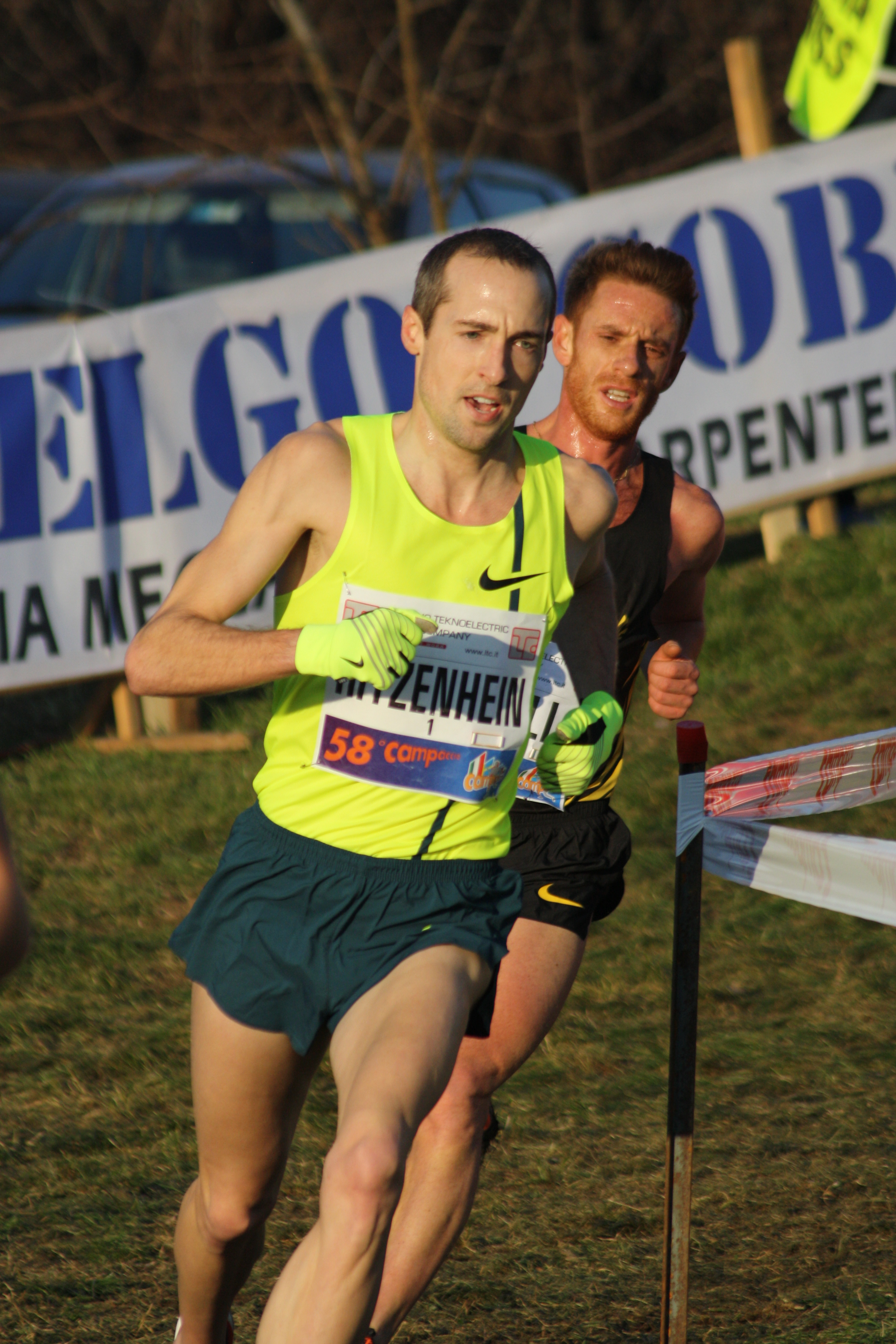 The American athlete Dathan Ritzenhein during the 58th edition on the Campaccio.